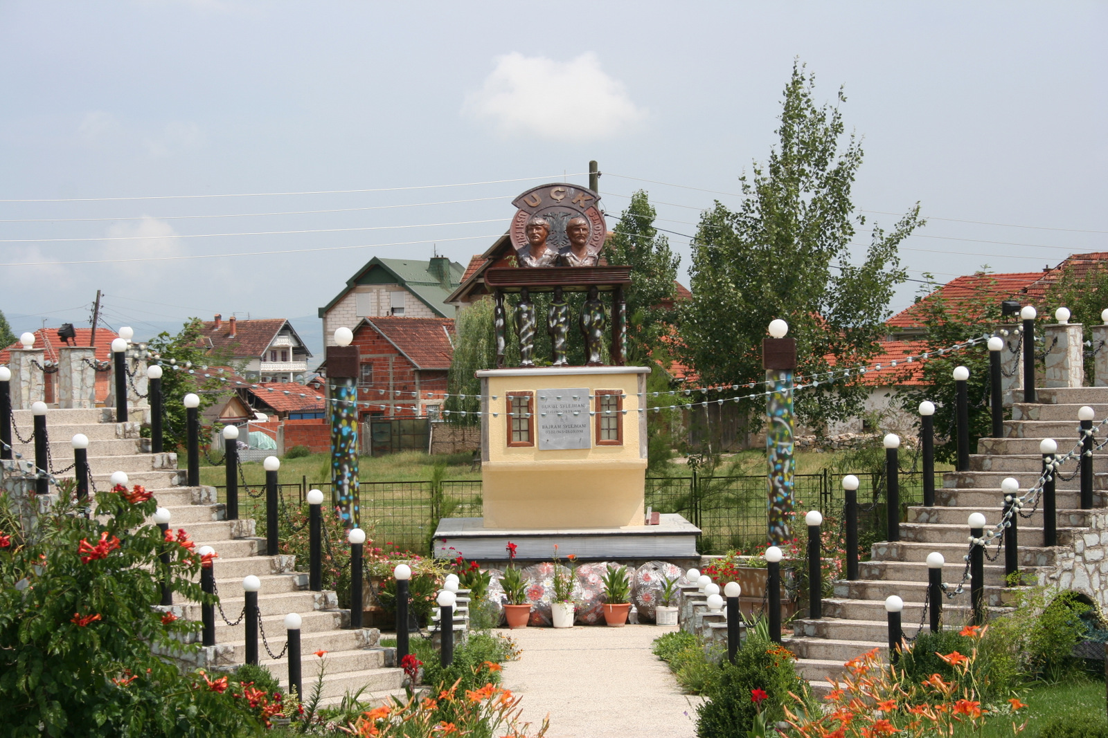 Monuments Kosovo